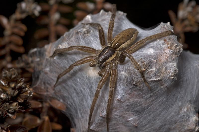 Dolomedes minor female guarding nursery web